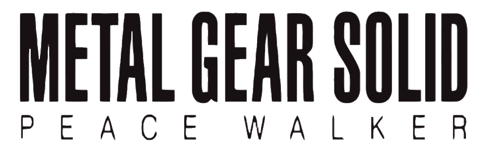 Logo for the Konami's Metal Gear Solid: Peace Walker videogame.